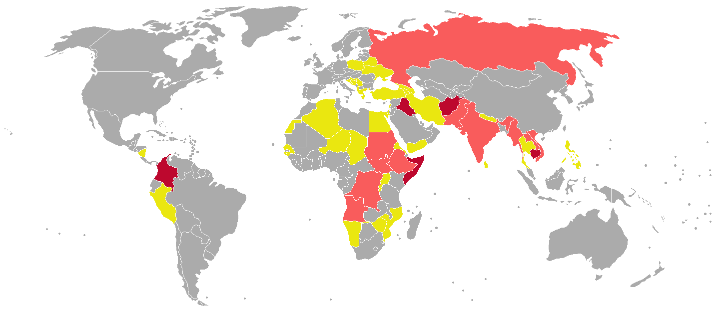 A schematic showing the countries with more than 100 victims of landmines recorded between 1999 and 2010. The map uses data from International Campaign To Ban Landmines - Cluster Munition Coalition . It was made based on the map shown in National geographic magazine january 2012, Dark red = very high number of casualties and fatalities Light red = high number of casualties and fatalities Yellow = moderate number of casualties and fatalities Note though that depending on the color and the size of the country, the mine-density and probability rate of actually encountering/stepping on a mine varies. For example, Russia has a moderate amount of victims, yet the country is very large; hence a country like Albania, Burundi or Rwanda actually has a much higher probability rate of encountering/stepping on a mine